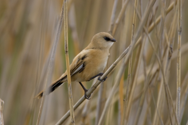 Bearded Reedling